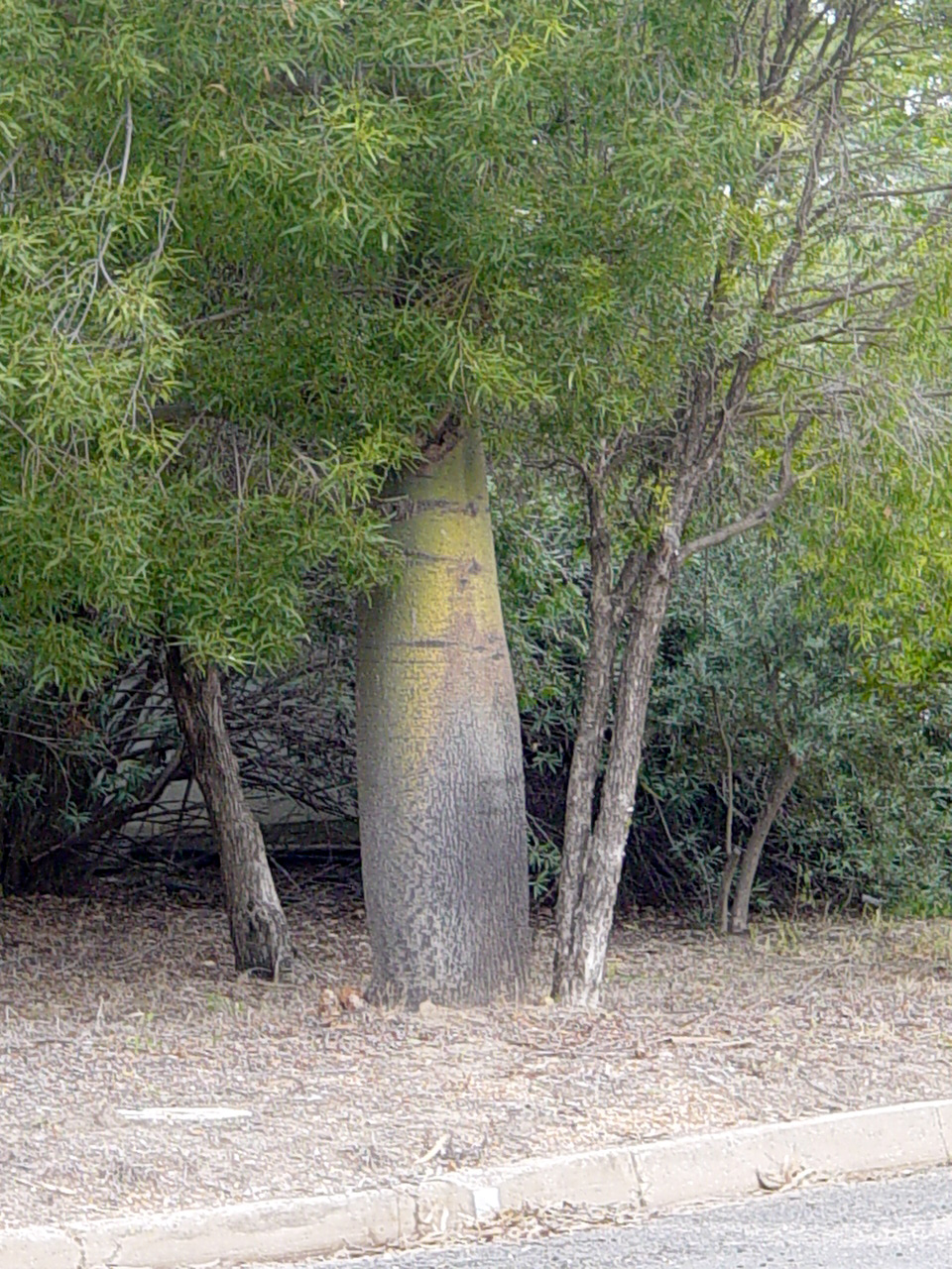 Bottle Tree